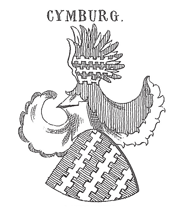 Coat of Arms of Cymburg